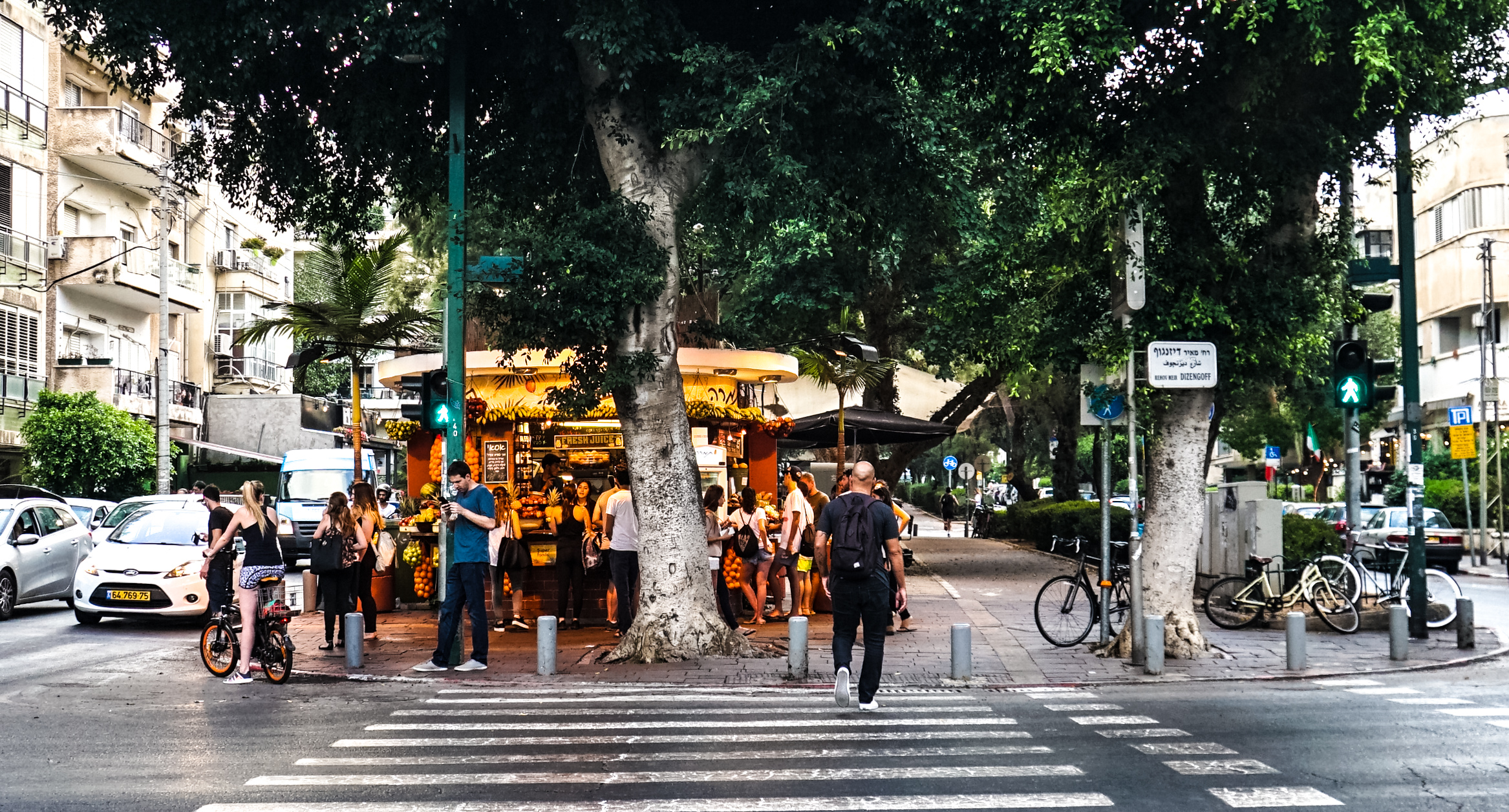 Fruit stand at Ben Gurion and Dizengoff Streets, Tel Aviv